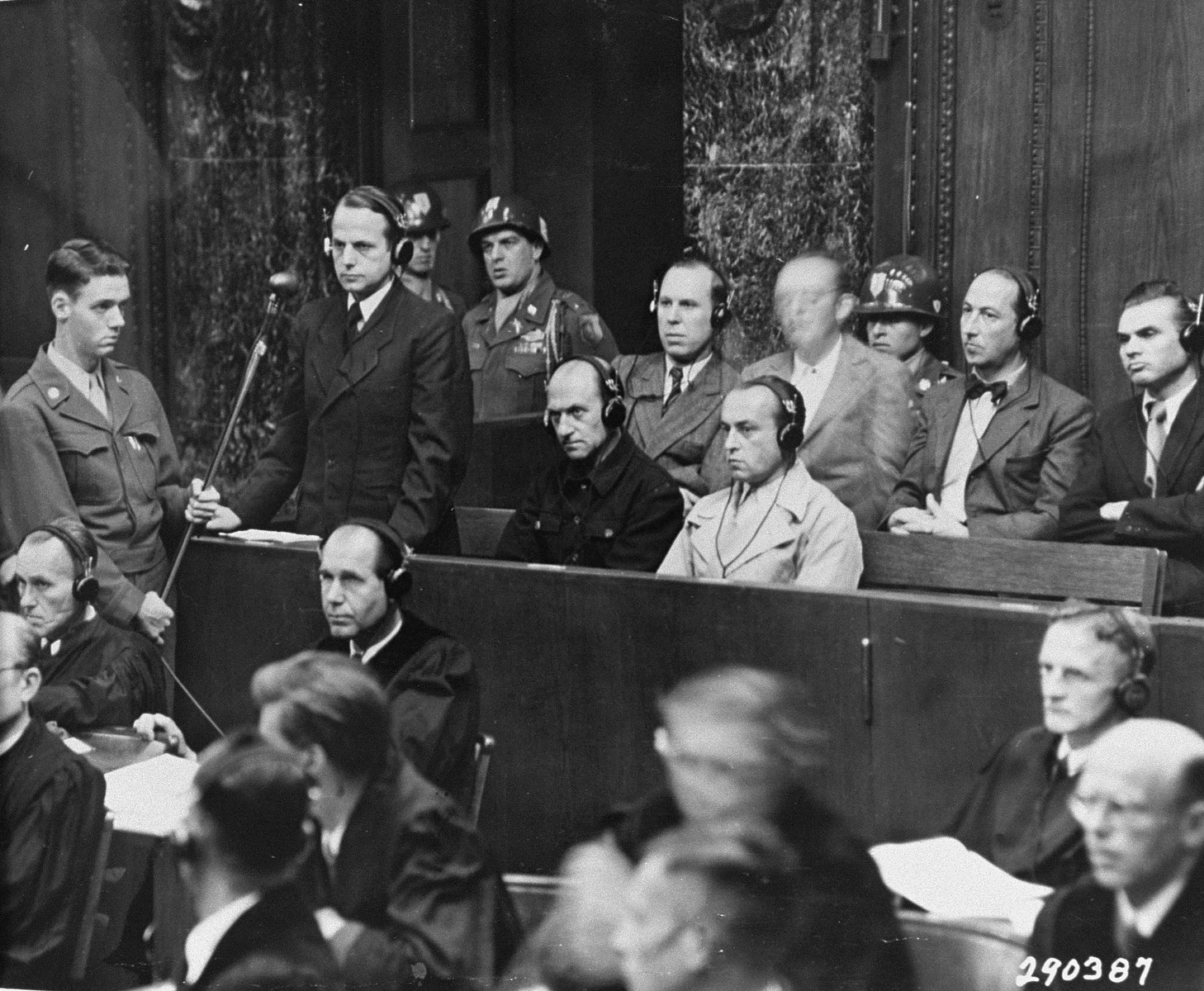 Defendant Otto Ohlendorf pleads "not guilty" during his arraignment at the Einsatzgruppen Trial. Locale: Nuremberg, [Bavaria] Germany